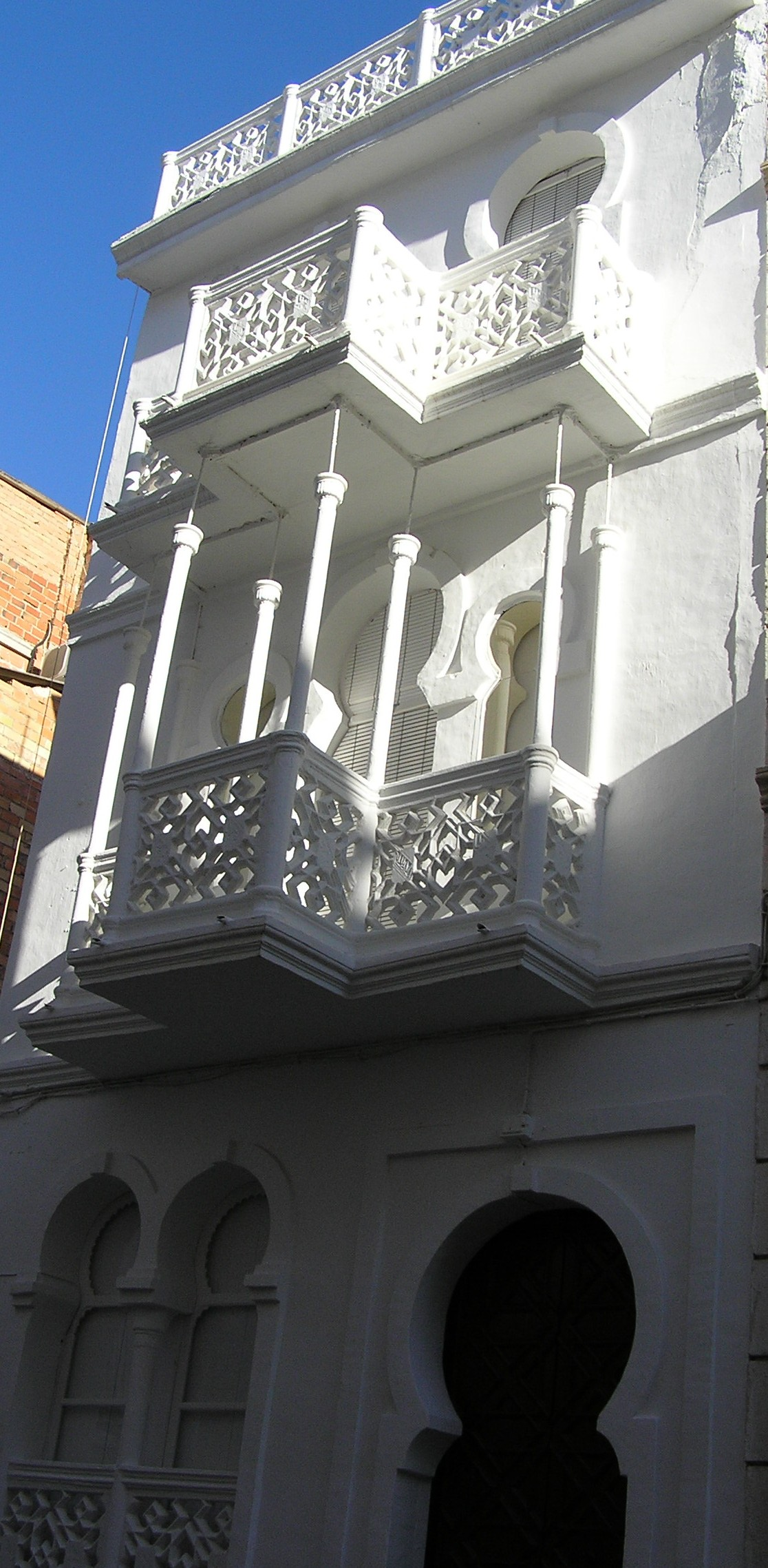 Casa en la calle La Feria